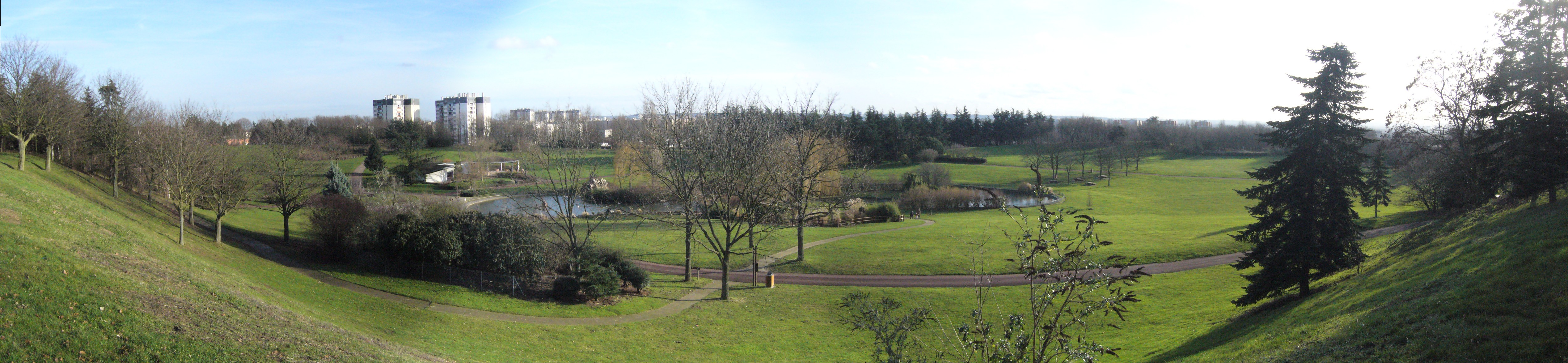 Panoramic view of "parc Robert_Ballanger" in Aulnay-sous-Bois (Seine-Saint-Denis, France).